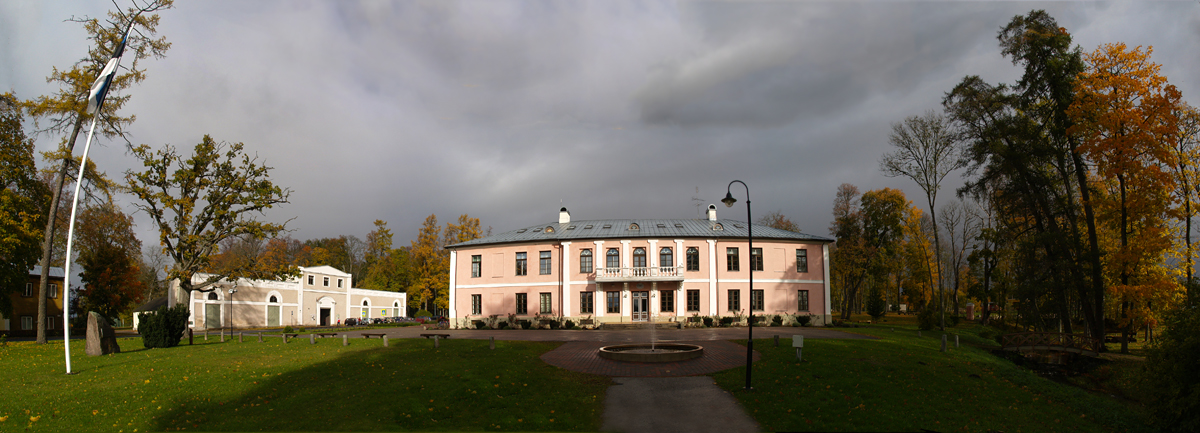 Tõstamaa manour